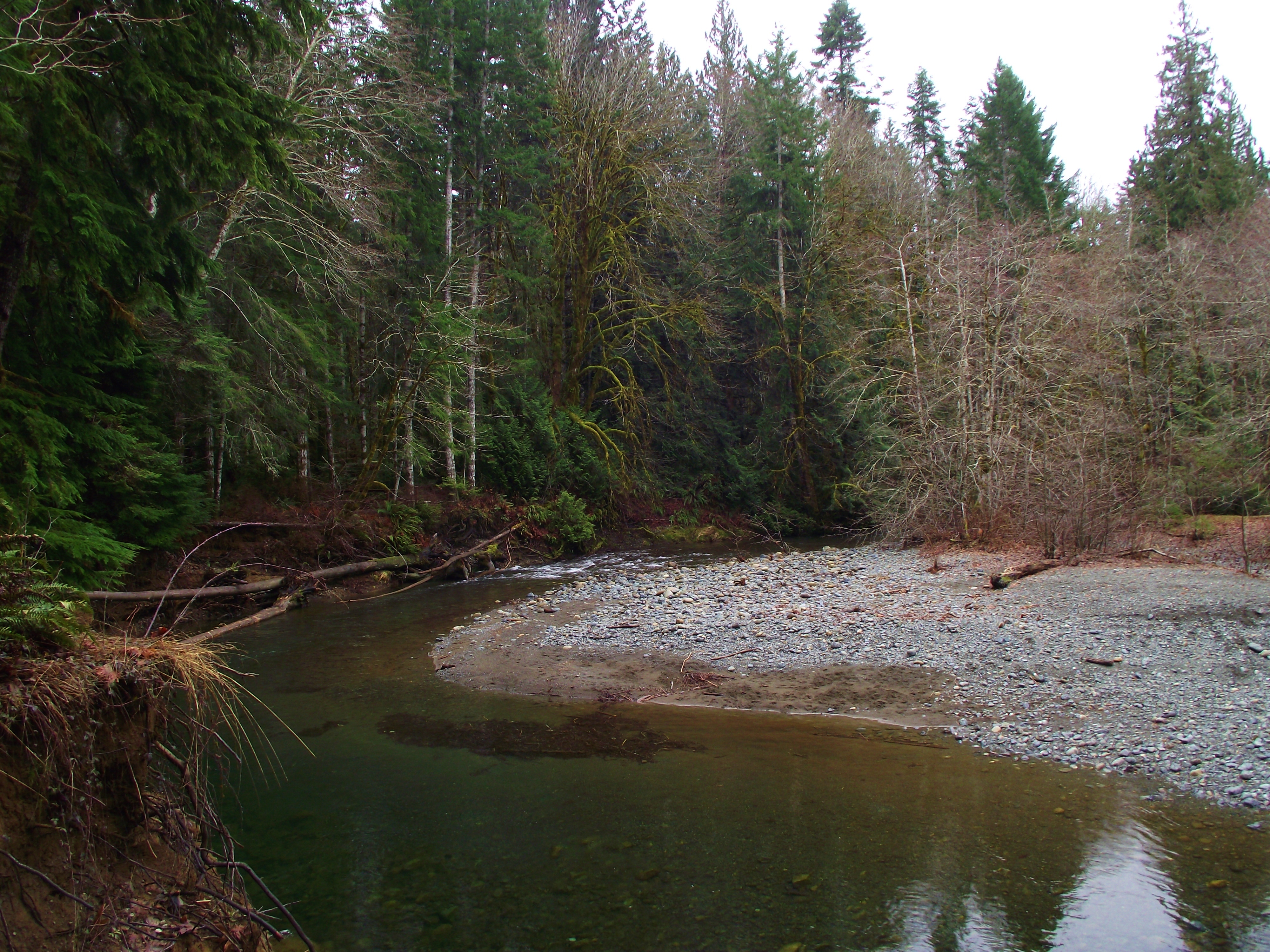 View of Rosewall Creek from picnic area within Provincial Park